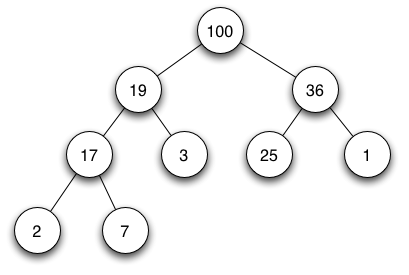 Illustration of a Complete Binary Max Heap.